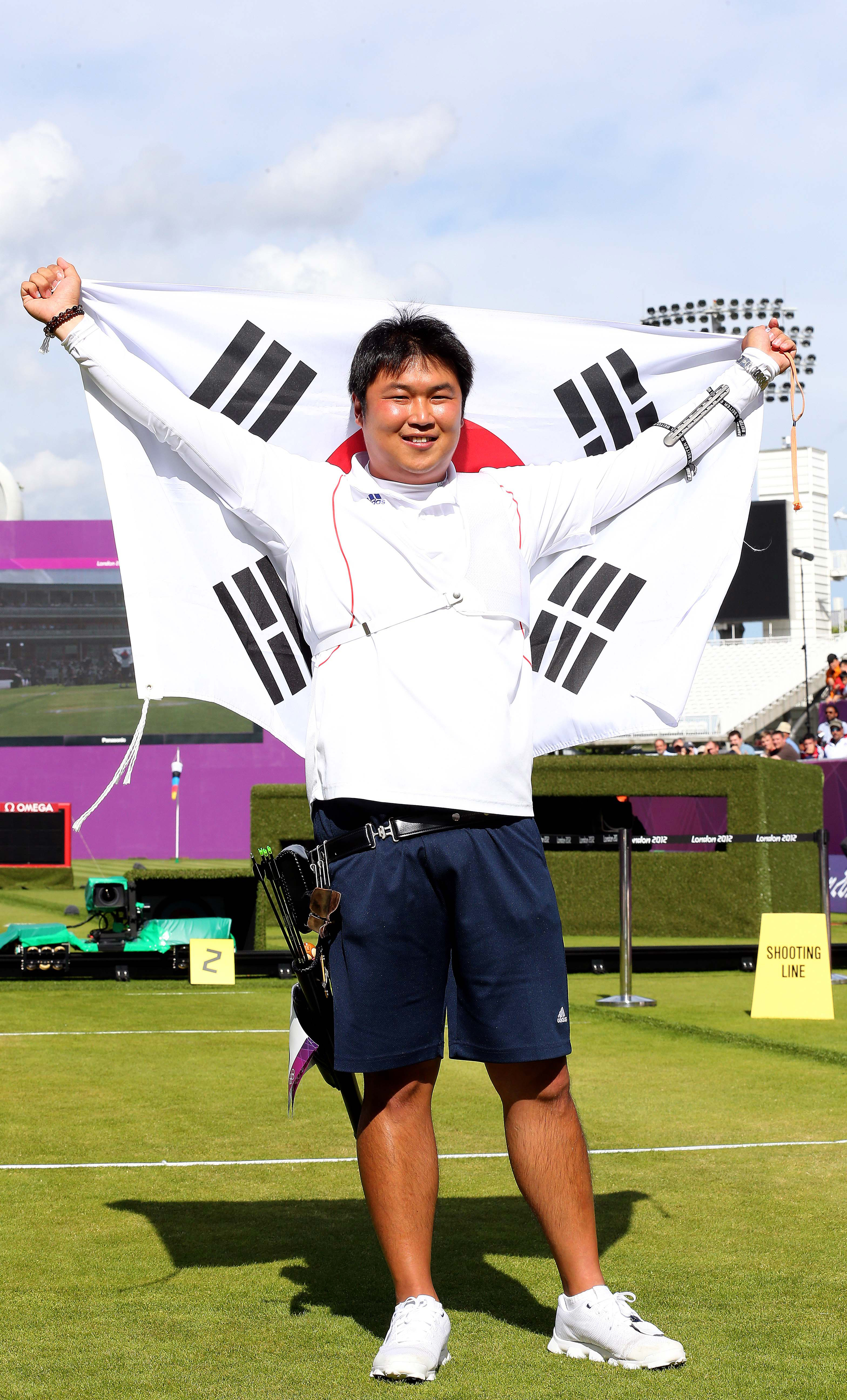 2012 London Olympic Games. Korea Oh Jin Hyek won the gold medal in men's individual archery